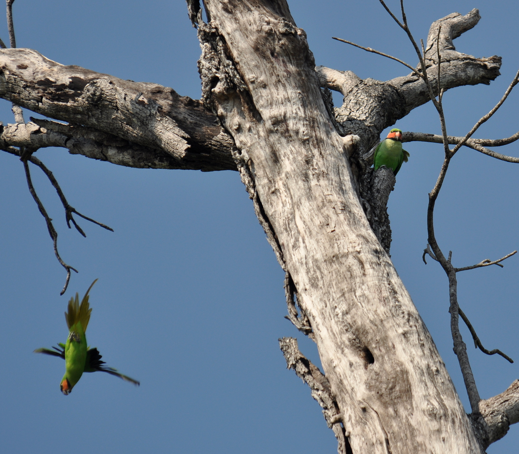 Male (right) and female (left in flight) of Long-tailed Parakeet (Psittacula longicauda) in Andamans, India